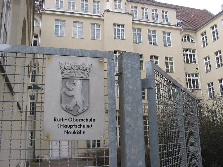 Rütli-School (Hauptschule), Berlin-Neukölln